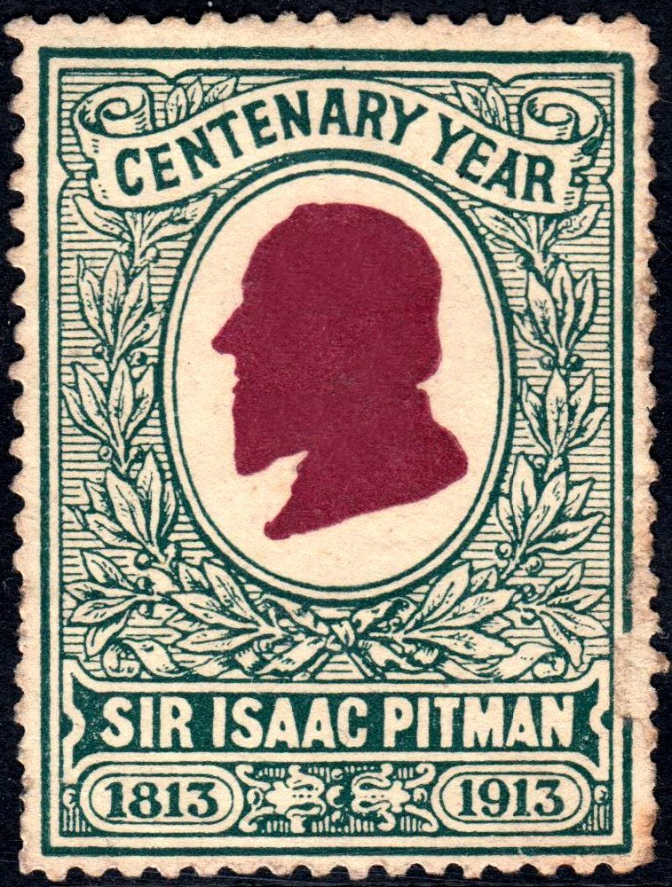 Sir Isaac Pitman 1913 birth centenary stamp.